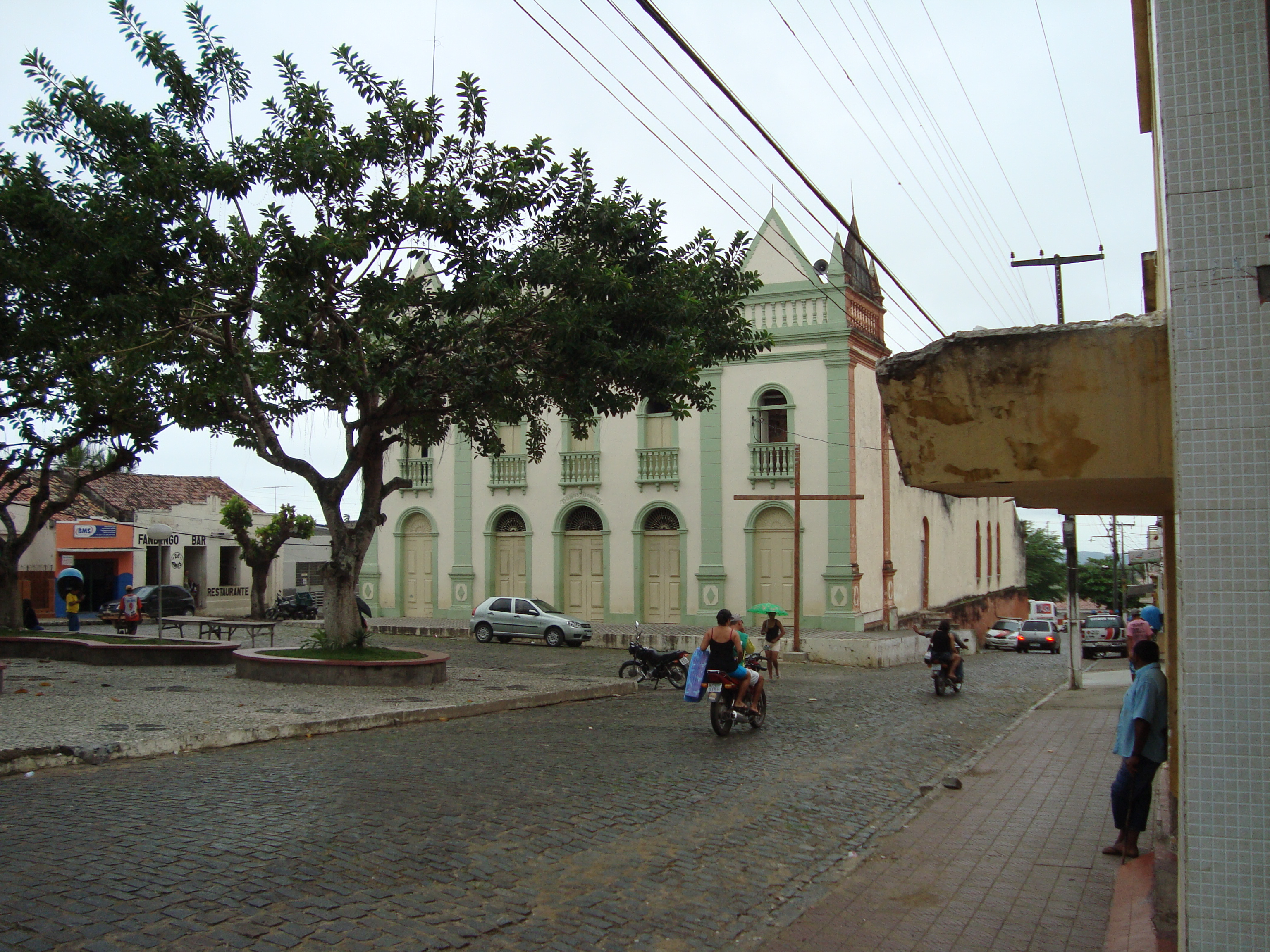 Rua Quebra Quilos Fagundes-PB